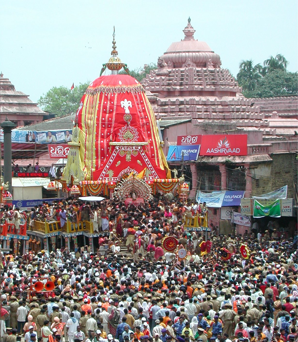 Crowd during Rath Yatra in Puri, Orissa, India, whil the idol is being carried up the ramp into his cart.